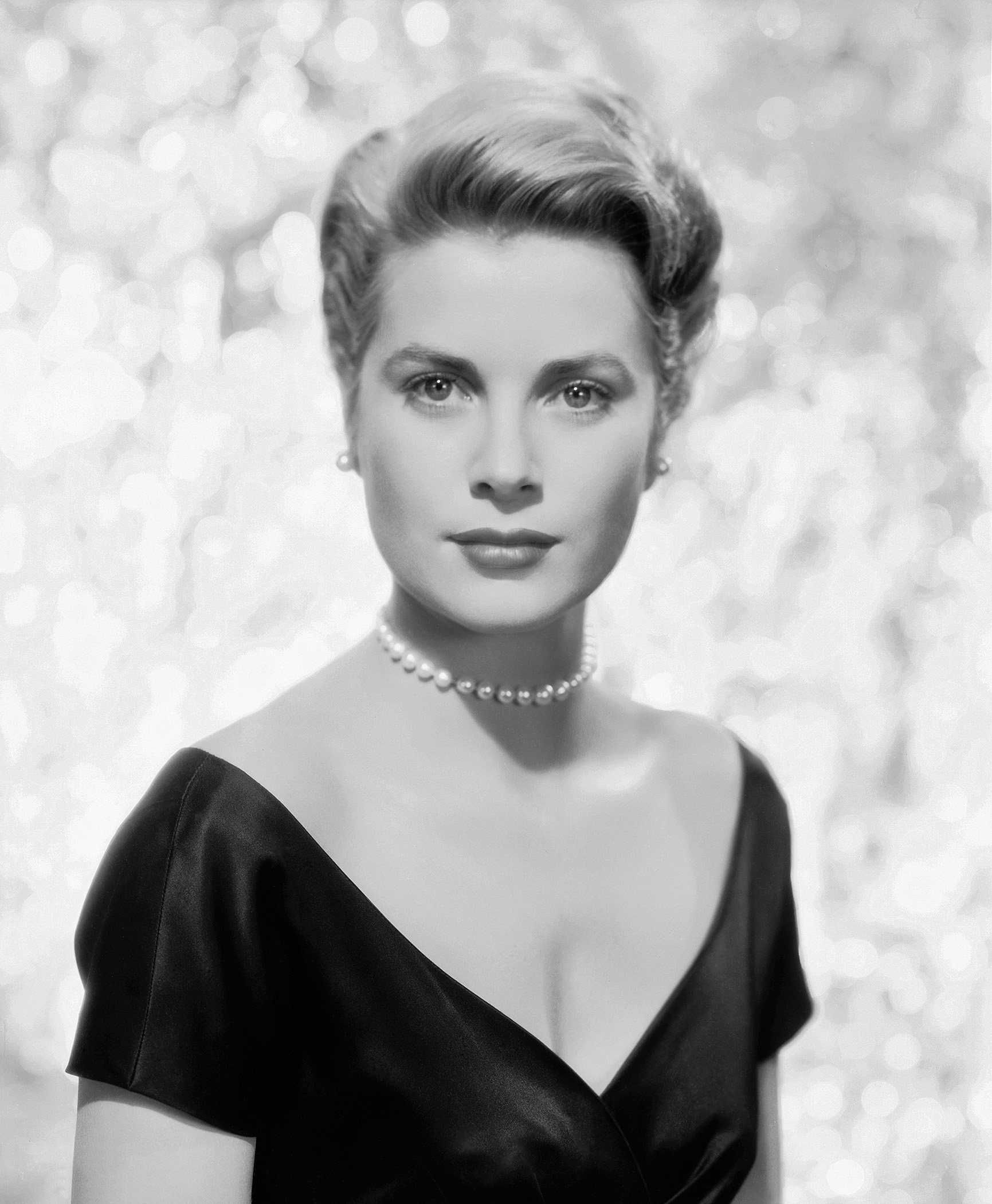 Photo of actress Grace Kelly.